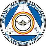 Official logo for Defense Equal Opportunity Management Institute (DEOMI)Un